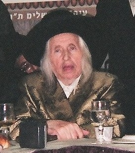 Seated are Rabbi Moishe Sternbuch (right) and the Kaliver Rebbe (left)